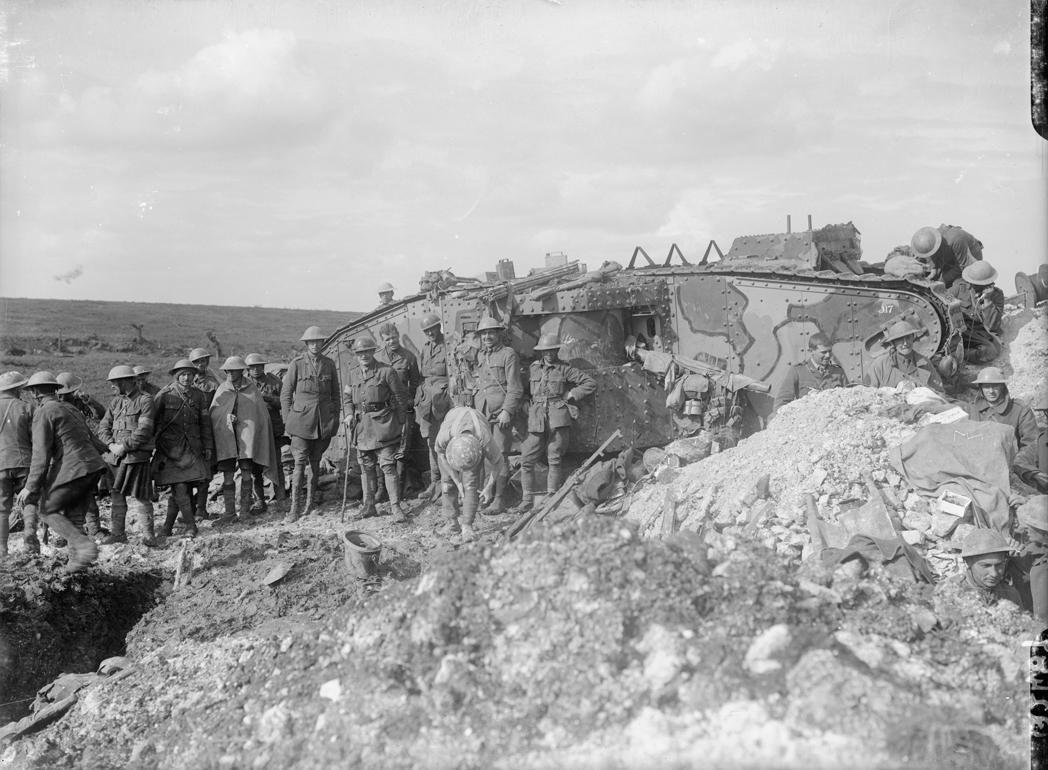 Battle of Flers-Courcelette, France. A Brigadier and his staff outside Mark I tank 17 of D Company, which was used as his Headquarters. Near Flers.